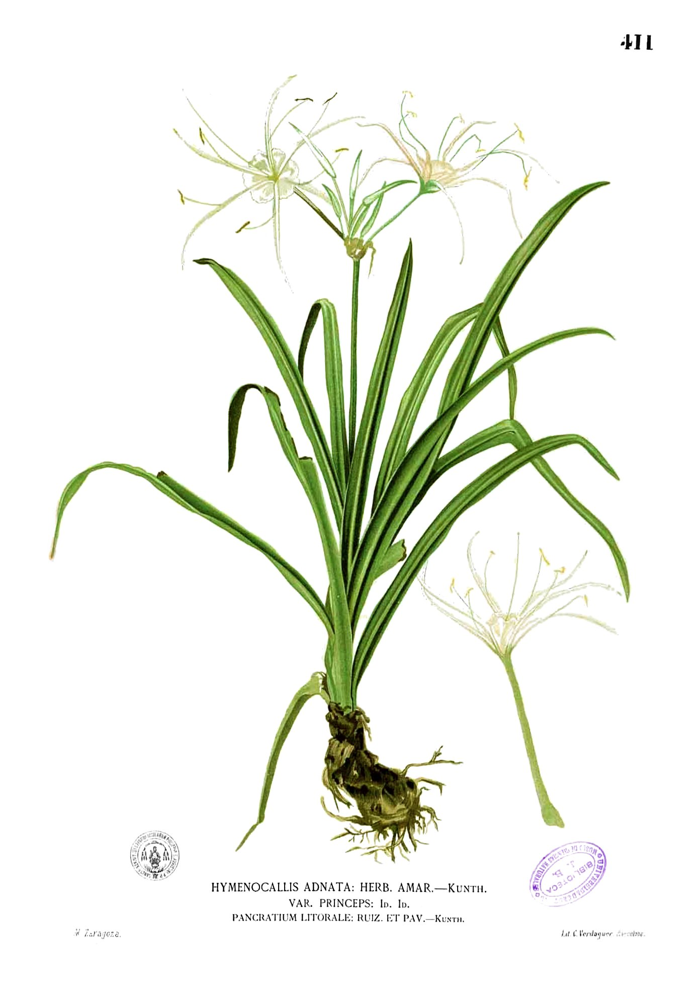 Hymenocallis littoralis Plate 411 from book